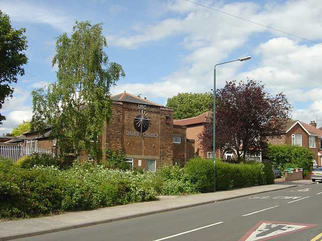 Dales Church United Reformed Church on Parkdale Road. A relatively modern but nondescript building.